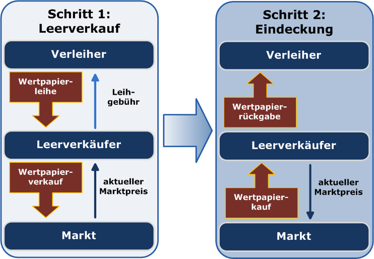 Schematic representation of short selling in the two steps.